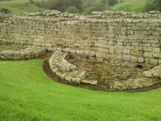 Vindolanda (Chesterholm) Roman forts, civil settlement and cemeteries, adjacent length of the Stanegate Roman road and two miles Wikidata has entry Q17668738 with data related to this item.